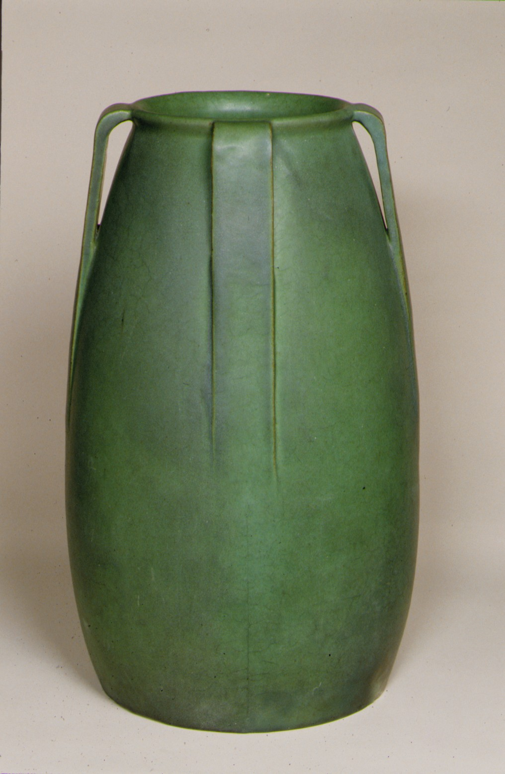 American; Vase; Ceramics